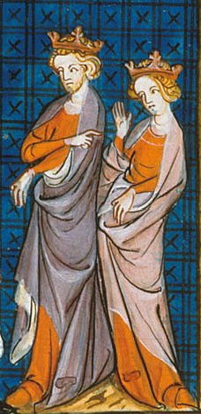 Henry II and his wife Eleonora